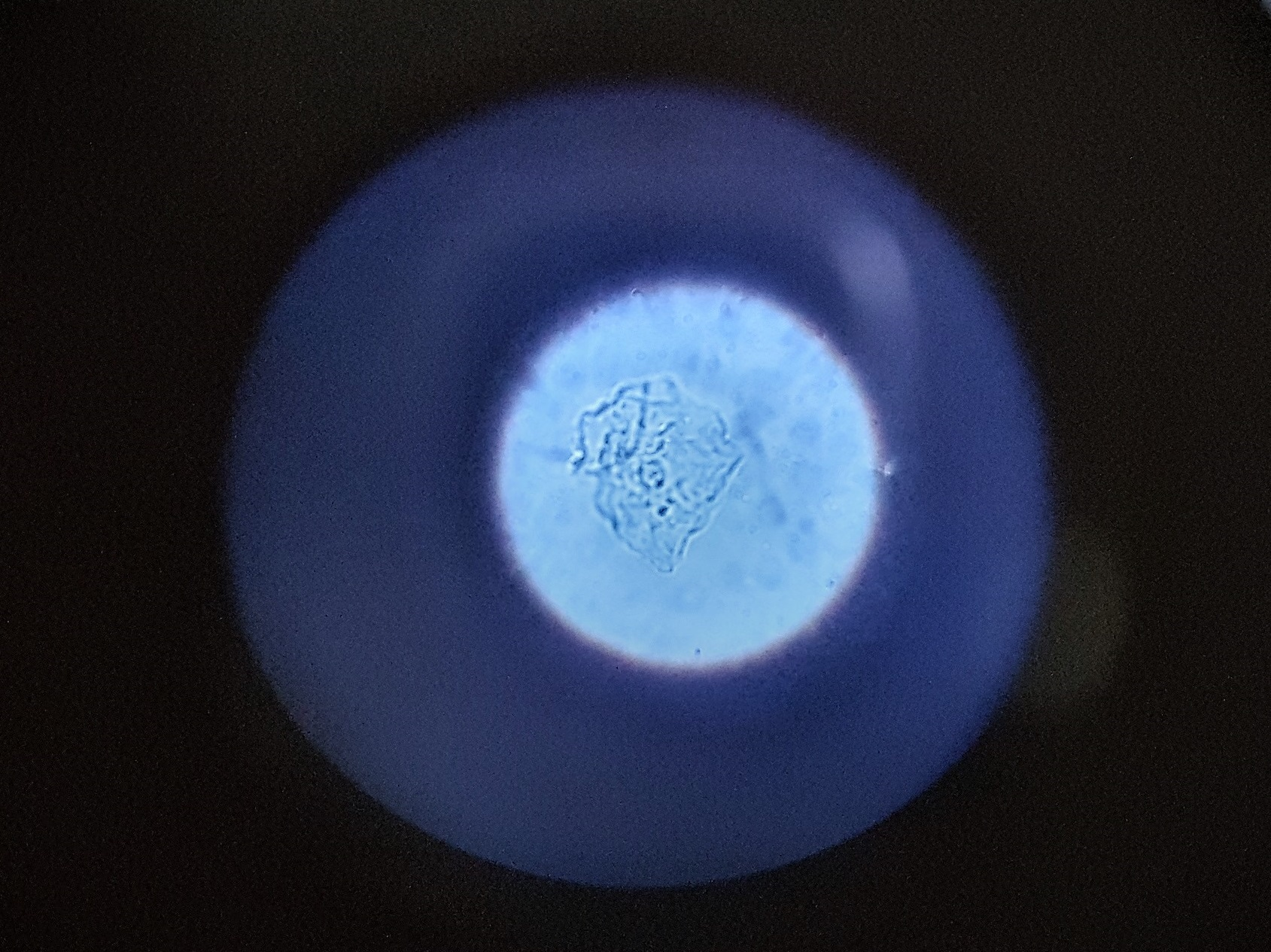 Observation of the optical microscope of an animal cell. In the center is clearly visible the nucleus surrounded by the various compartments of the cell.